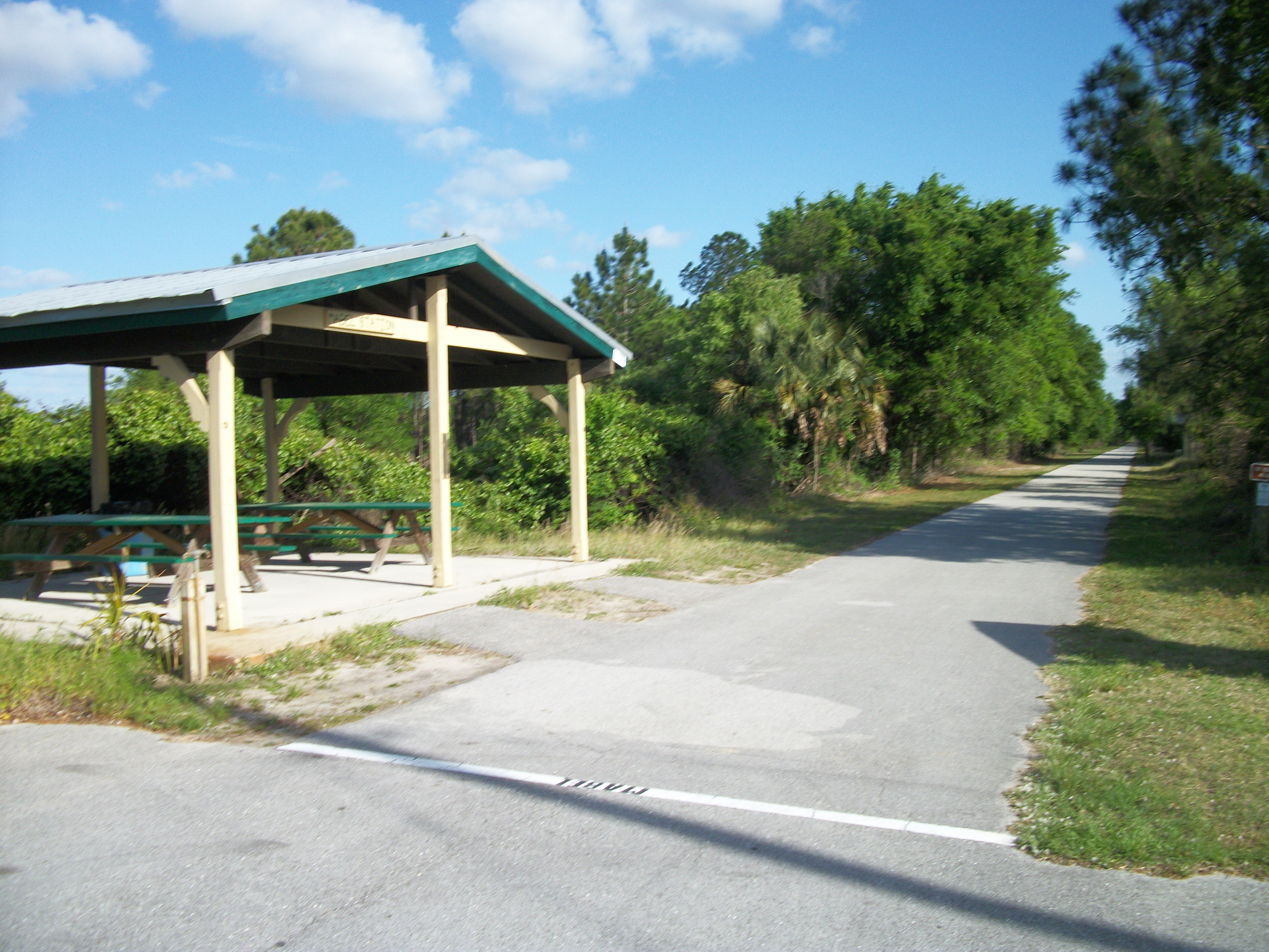 A look down the General James A. Van Fleet State Trail at the Mable Trailhead in Mabel, Florida. This also includes a covered picnic shelter called "Mabel Station," and a lot of swampland surrounding the trail. This was on a former Seaboard Air Line Railroad line that originally spanned from Coleman, Florida into Lakeland, Florida. The trail itself only goes as far south as Polk City & now 9 miles to Auburndale, Florida, and as far north as almost here.